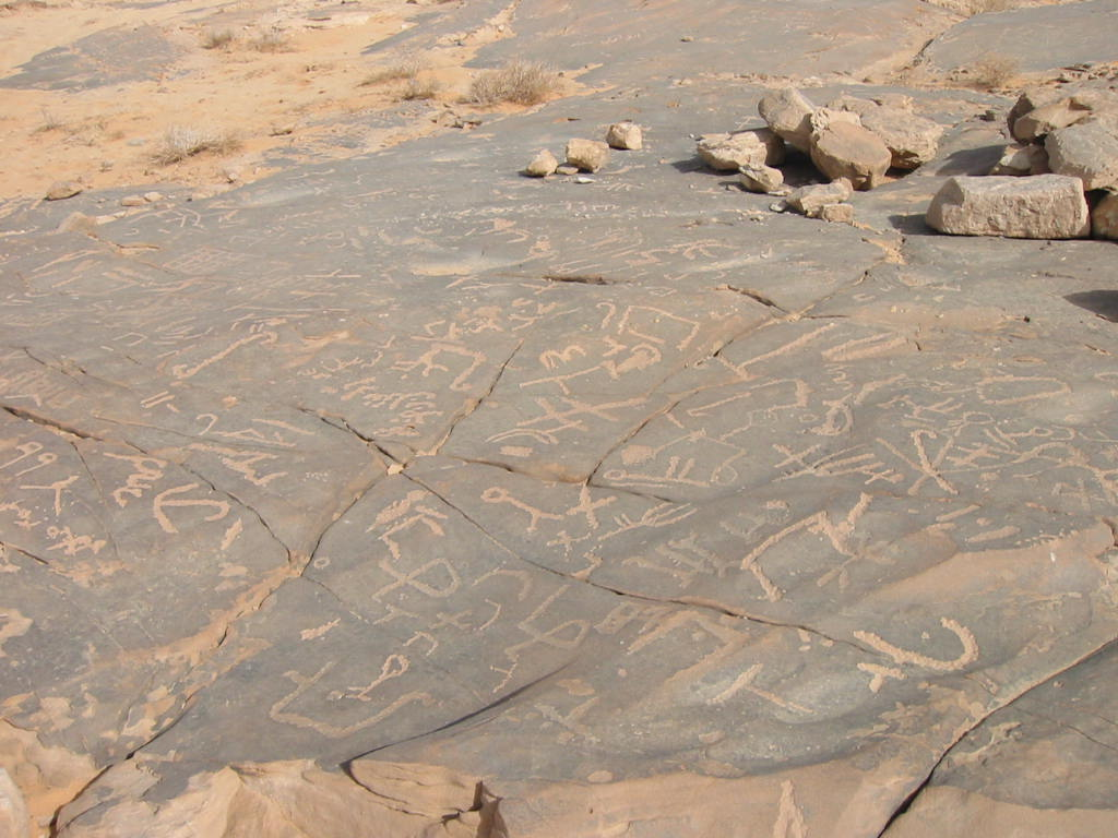 من القطع والمواقع الاثرية لحضارات تيماء